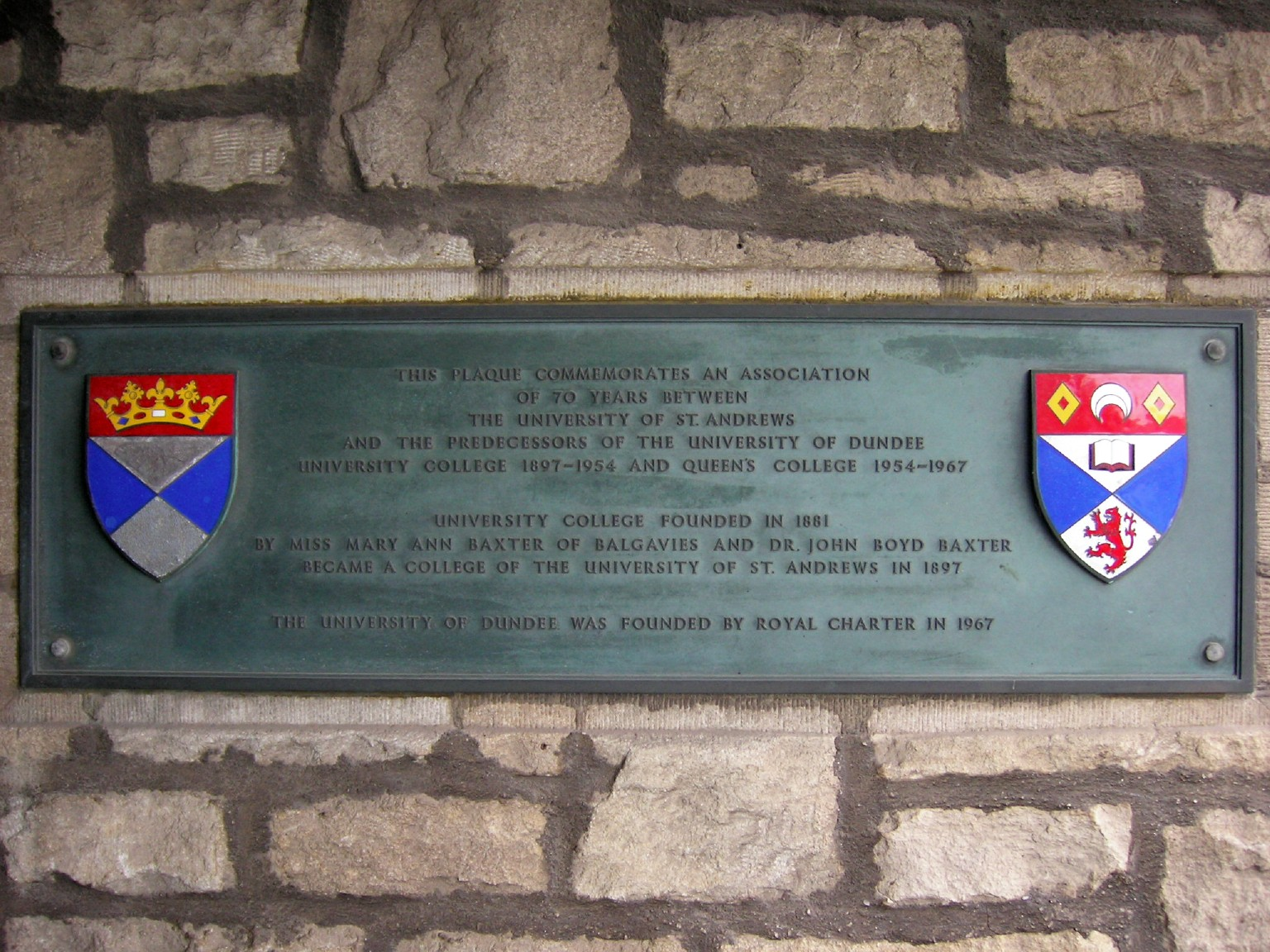 Dundee University Plaque celerbrating its relationship with the University of Saint Andrews